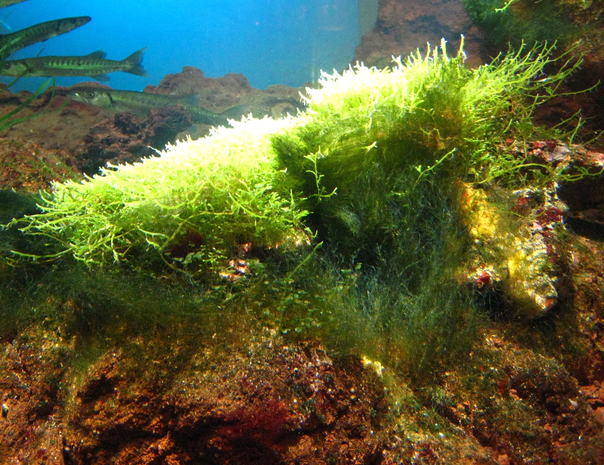 Caulerpa racemosa at Nausicaä, Centre National de la Mer. Caulerpa racemosa à Nausicaä, Centre National de la Mer.